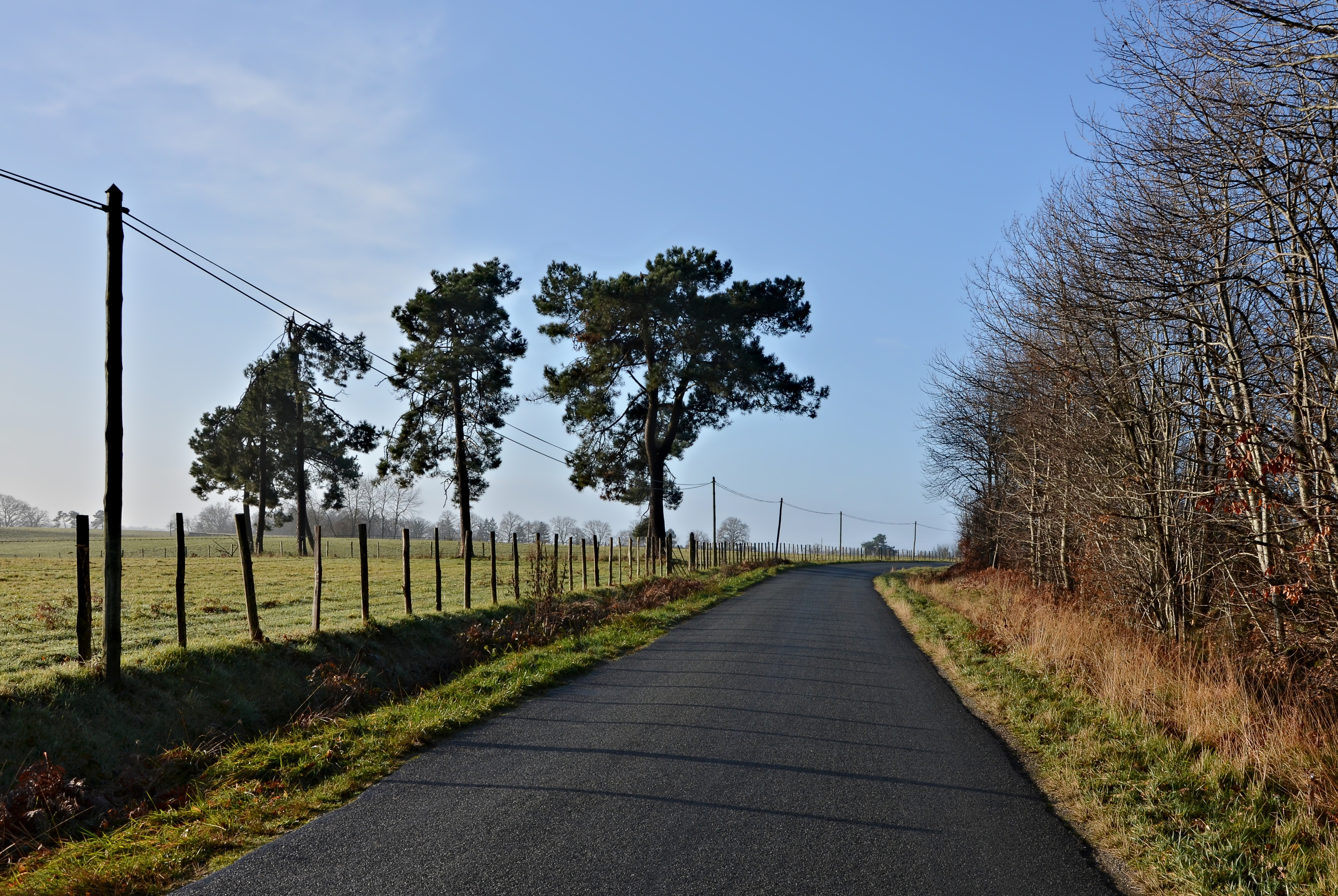 Country road n° D 46, near Pérignac, Charente, France.